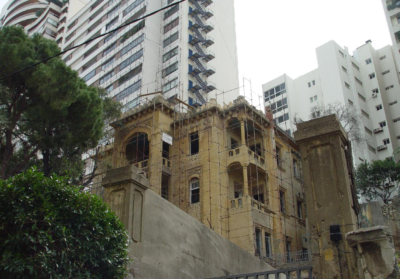 What remains from Beirut old houses... what a pity... they demolish them and build those ugly stuff similar to the ones behind this old mansion. what a pitty.